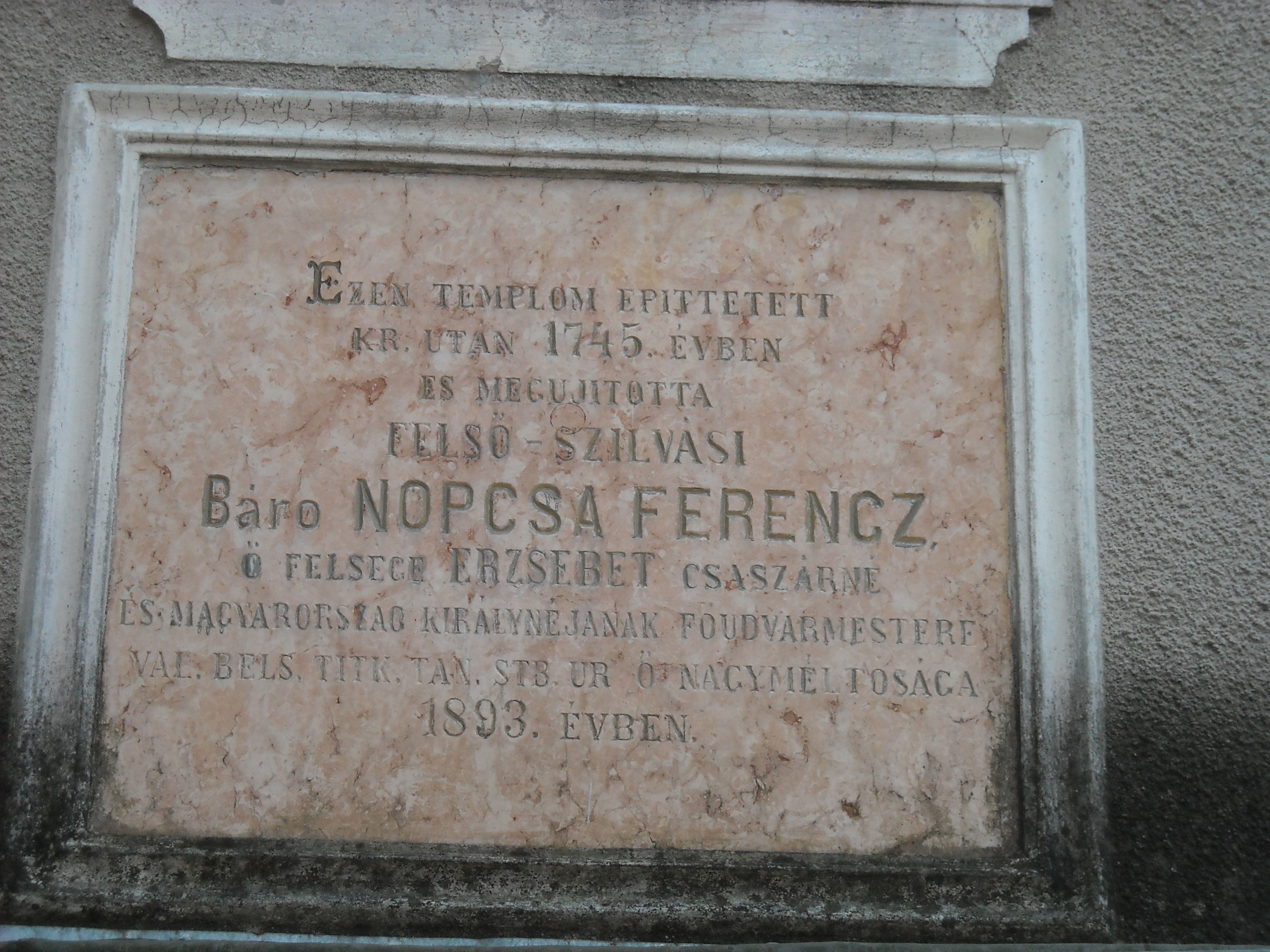 memorial plaque on the Roman Catholic church in Haţeg/Hátszeg